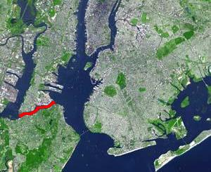 Kill Van Kull in New York Harbor in the United States Based on original public domain image courtesy of NASA (TERRA satellite) © 2004 Matthew Trump